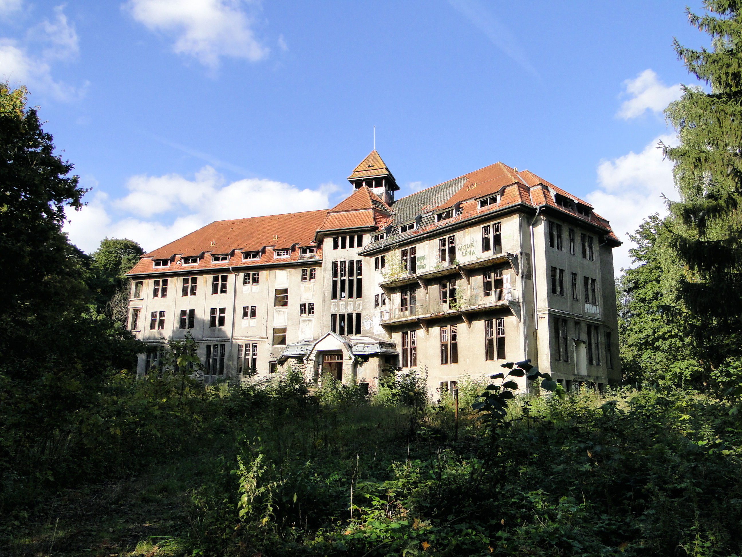 Former hotel (health resort) in the borough Zippendorf in Schwerin, Mecklenburg-Vorpommern, Germany